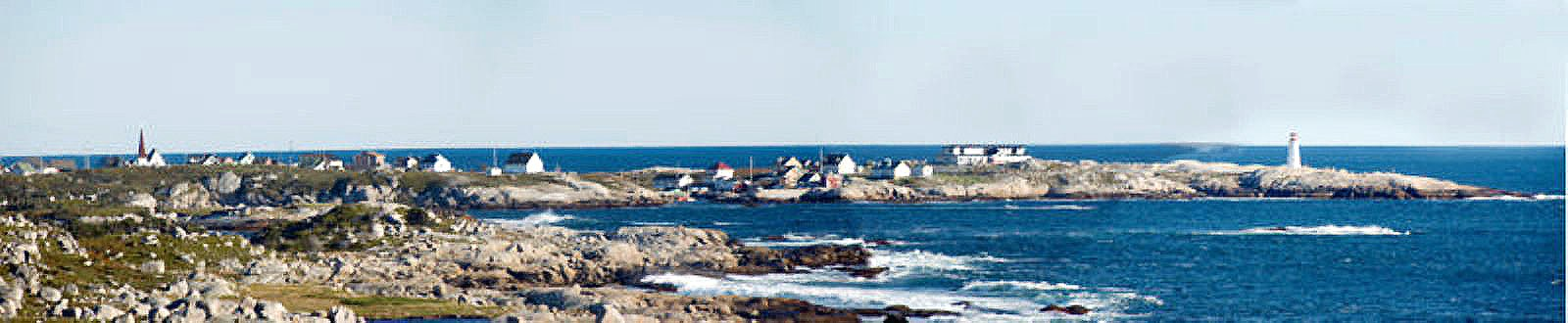 Peggys Cove, Nova Scotia, view from Flight 111 Memorial